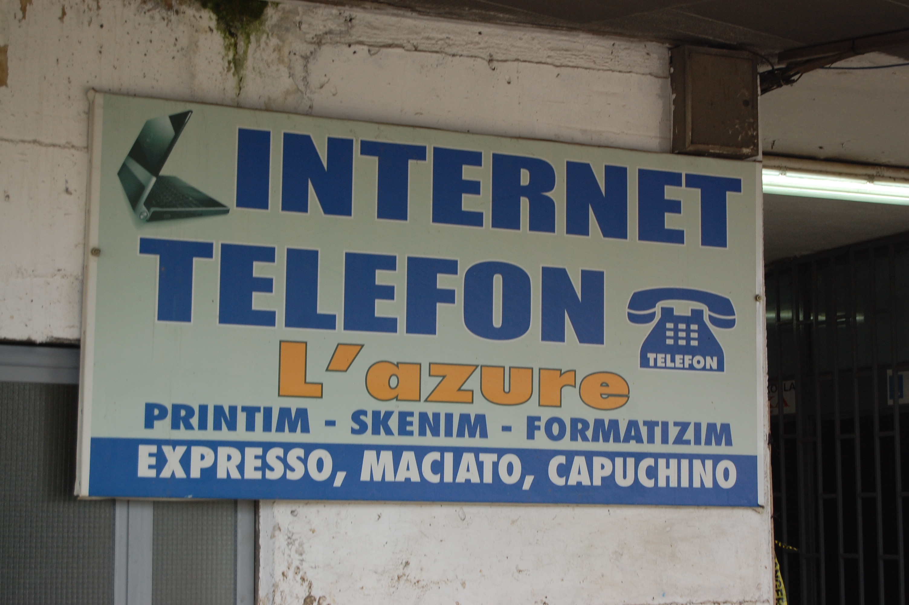 Signage outside a telephone shop on Agim Ramadani, Pristina, Kosovo.